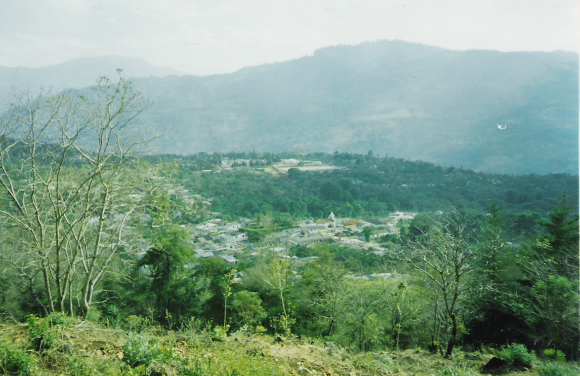 Picture of the city of San Antonio Huista. Taken from a nearby mountain side. Photo is a personal photo taken while visiting San Antonio